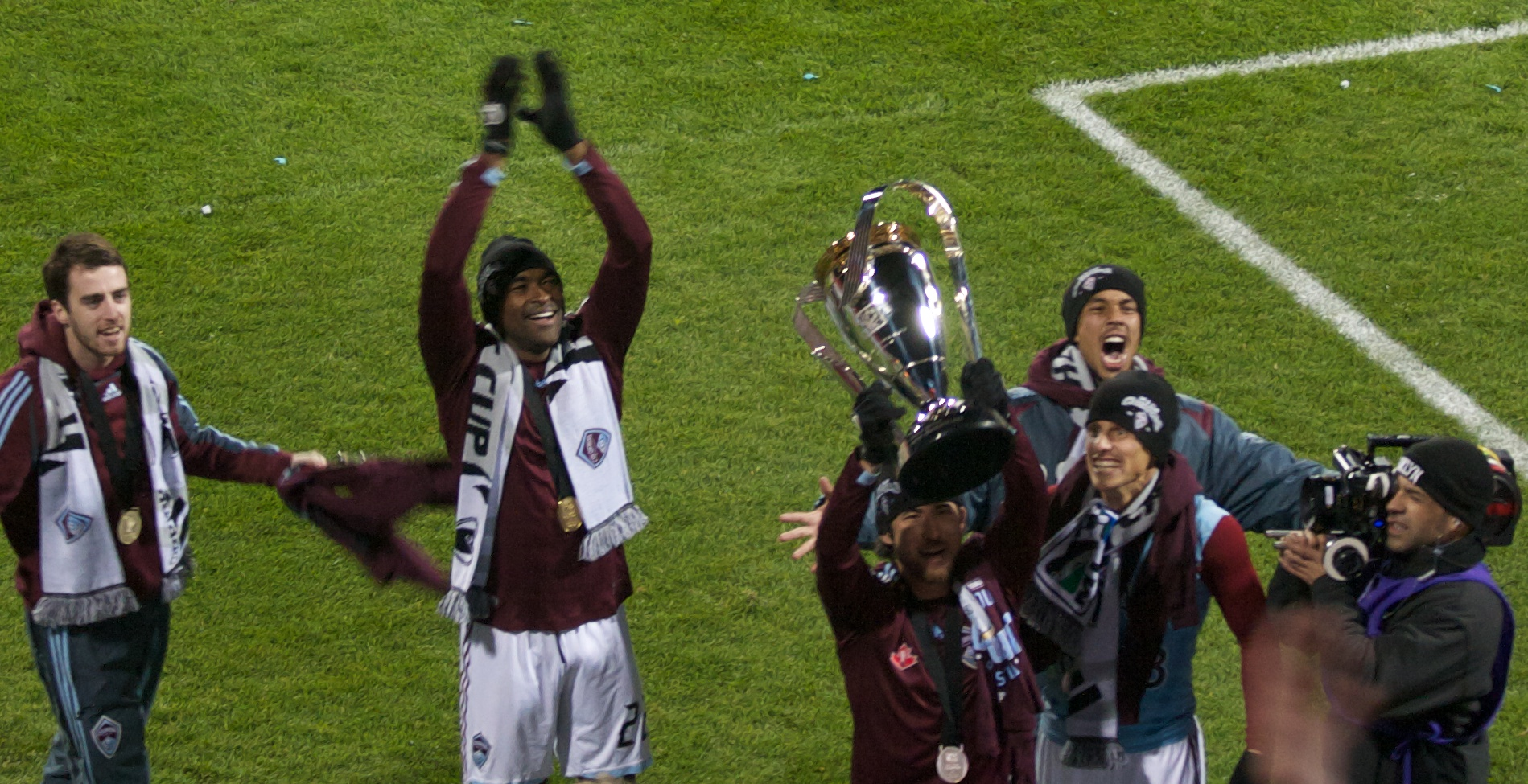 Players of Colorado Rapids celebrate winning MLS Cup 2010 in Toronto.